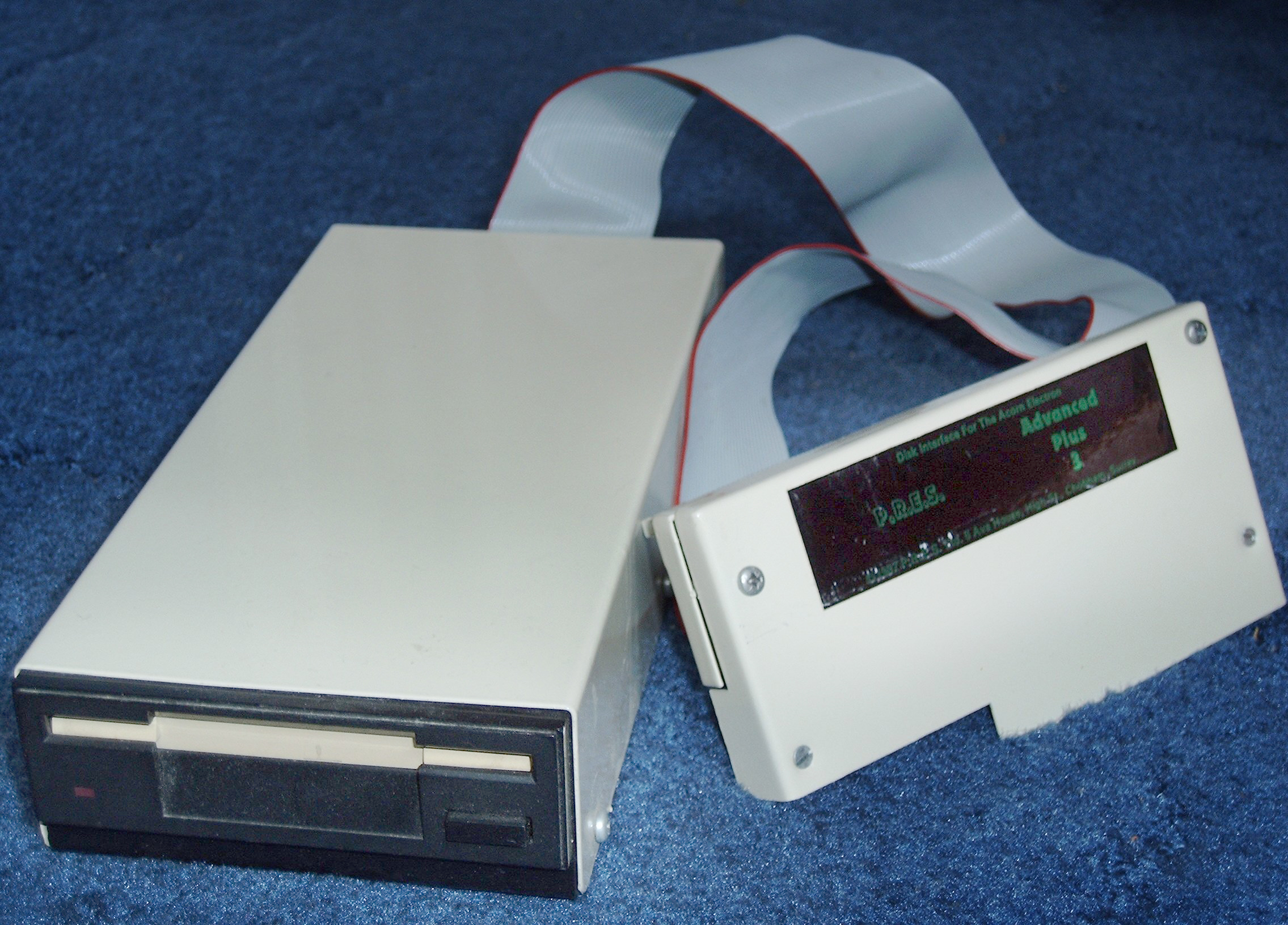 The Pres Advanced Plus 3 addon for the Acorn Electron